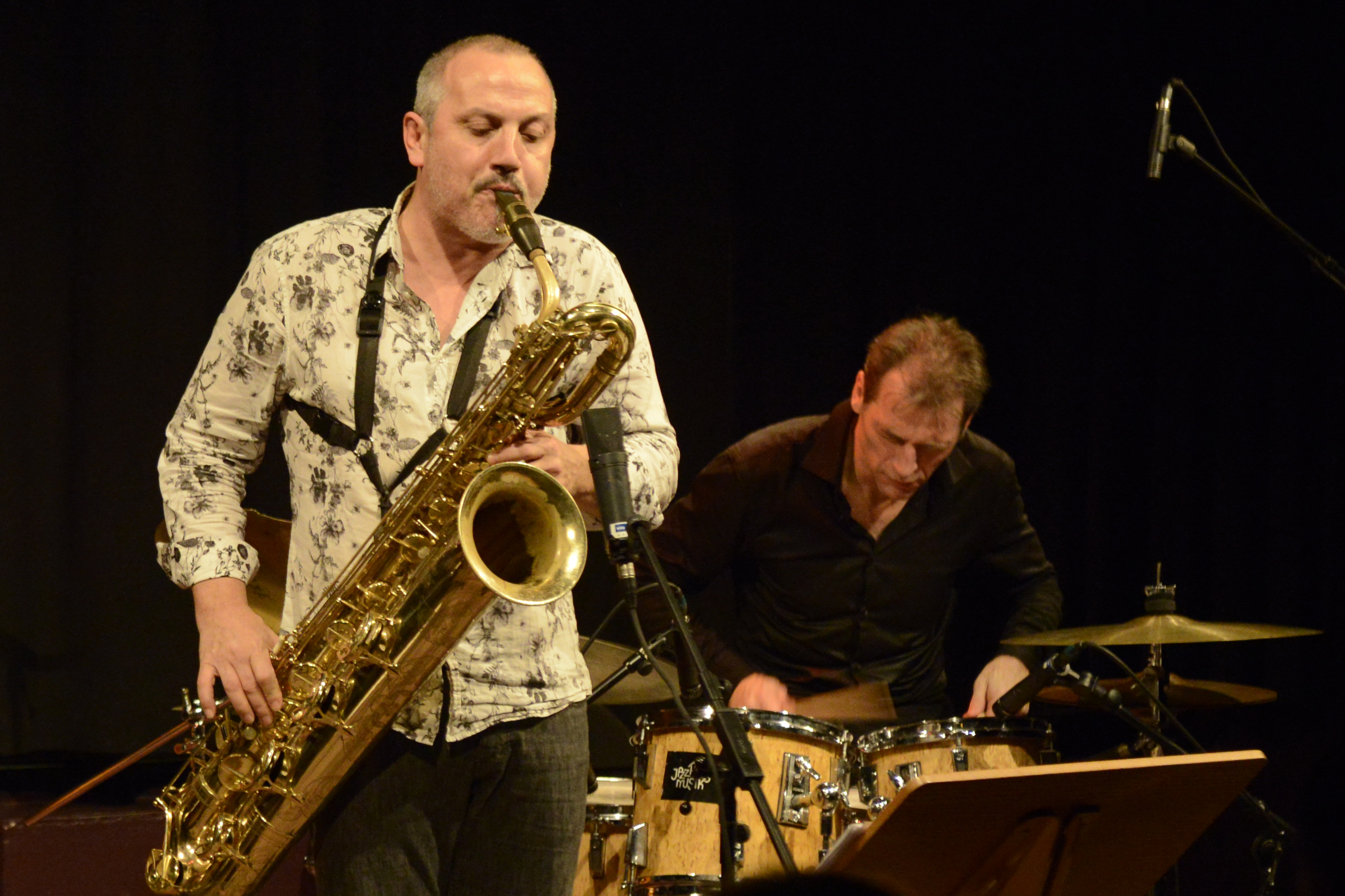 Francois Corneloup, french Jazz musician, Reeds